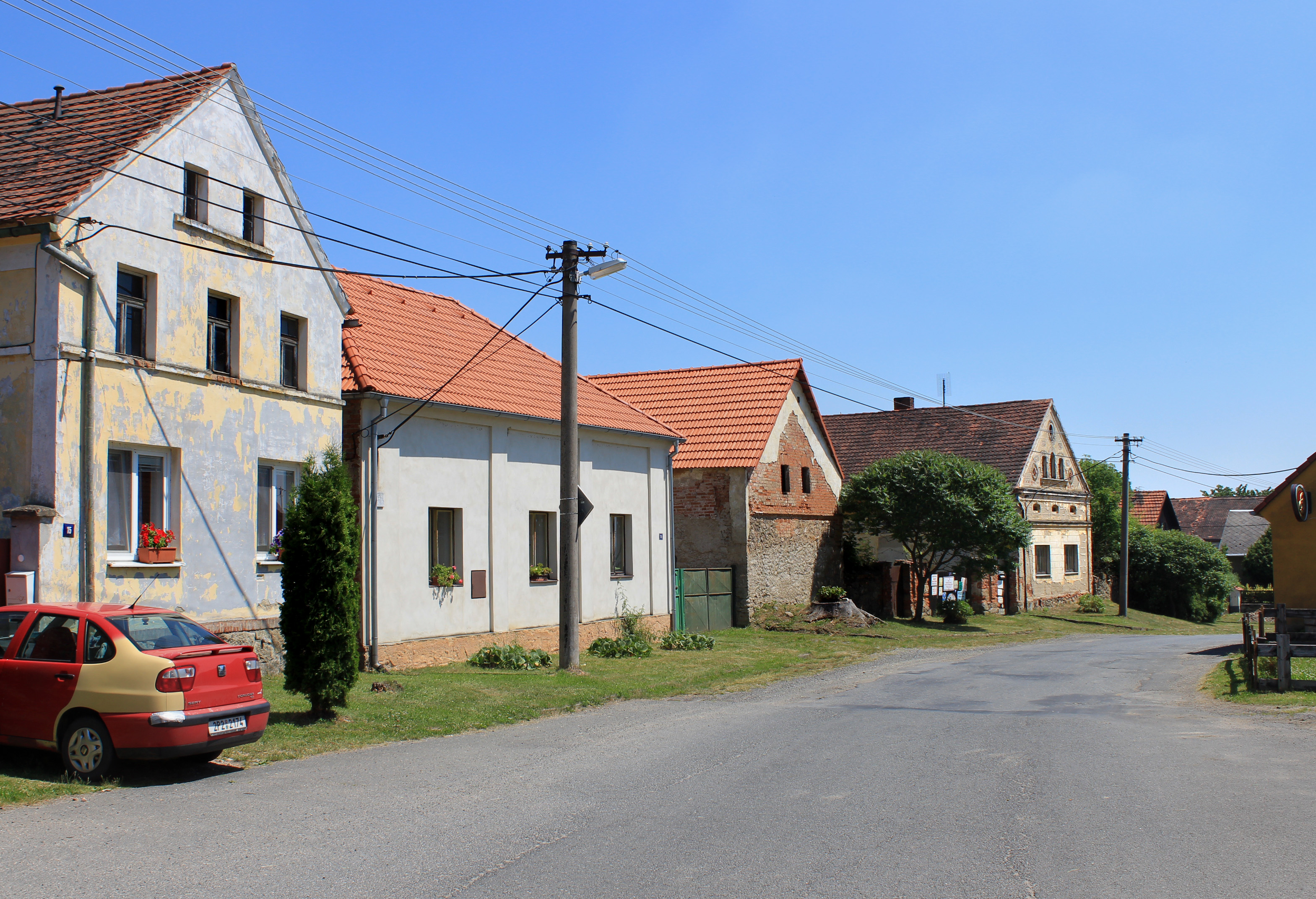 Common in Velký Malahov, Czech Republic.